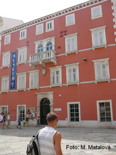 ROVINJ HERITAGE MUSEUM